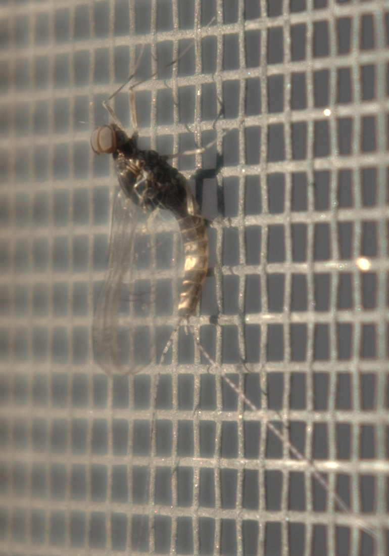 Male imago of the small minnow mayfly Callibaetis pictus, my screen door, Española, New Mexico. Thanks to Lloyd Gonzales at for ID. Same individual as File:Callibaetis pictus male imago dorsal.jpg.